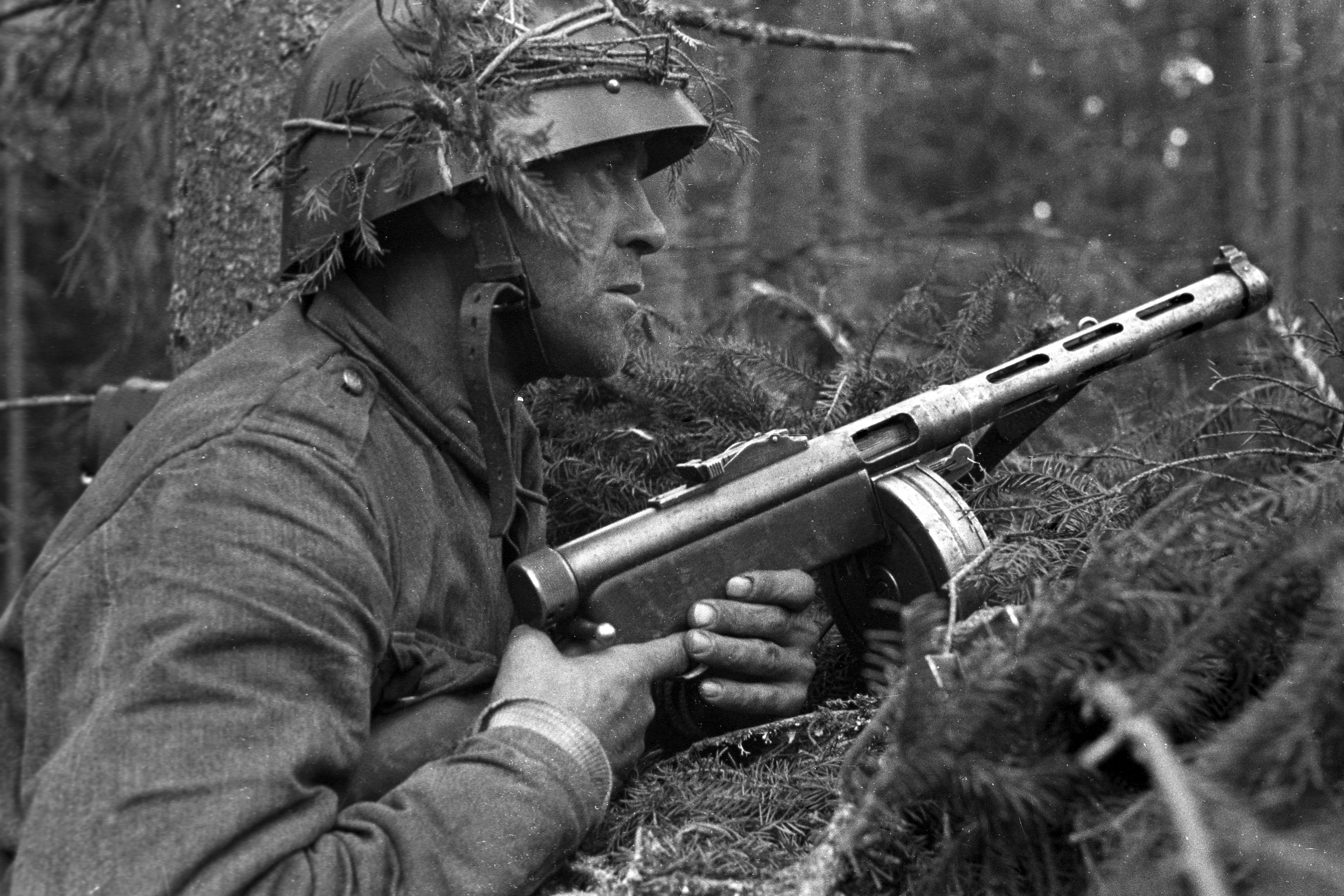 A Finnish sub-machinegunner in the Vuosalmi bridgehead, Karelian Isthmus.